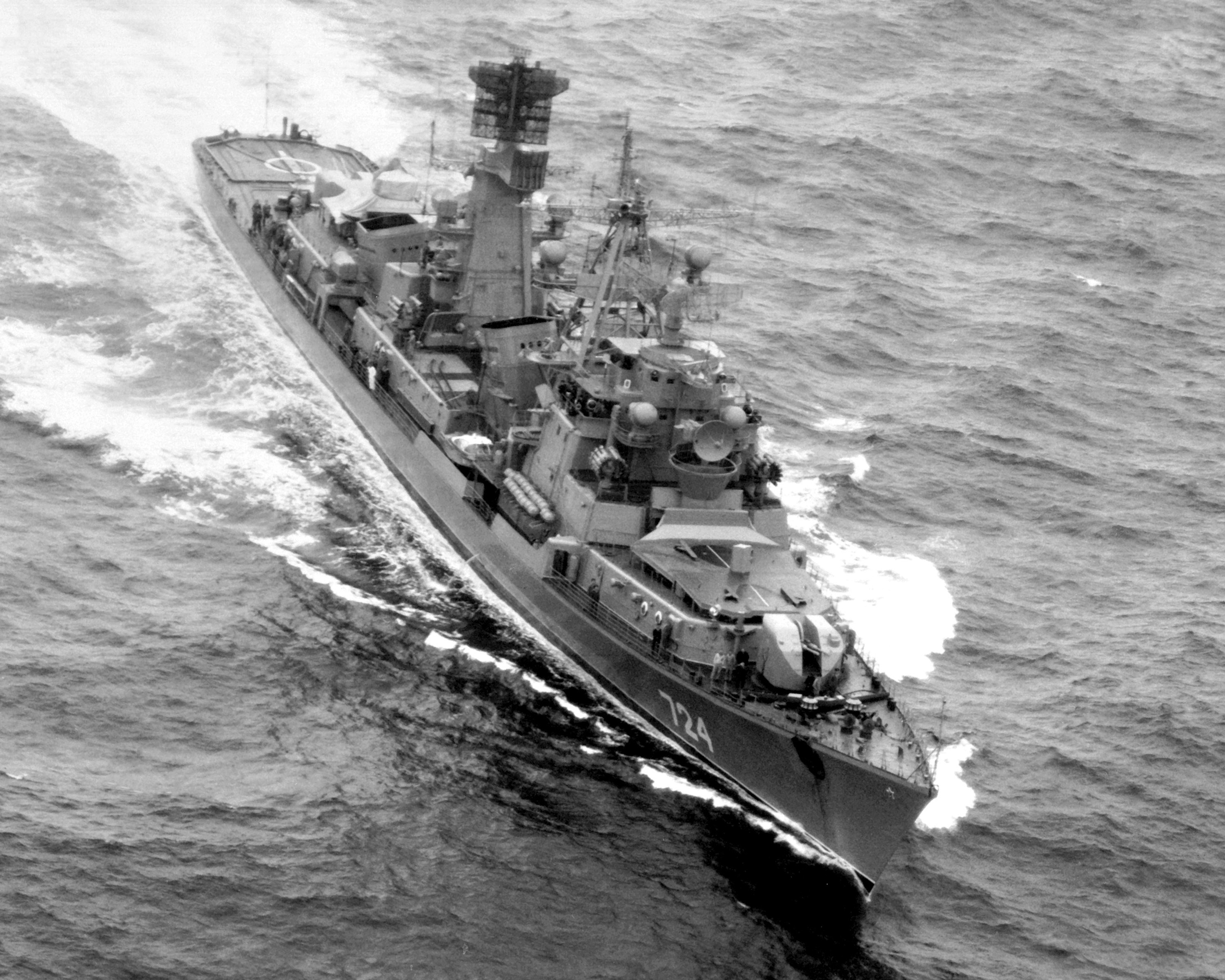 An aerial starboard bow view of the Soviet Kashin class destroyer Provornyy underway. Photo courtesy of Joint Services Recognition Journal.